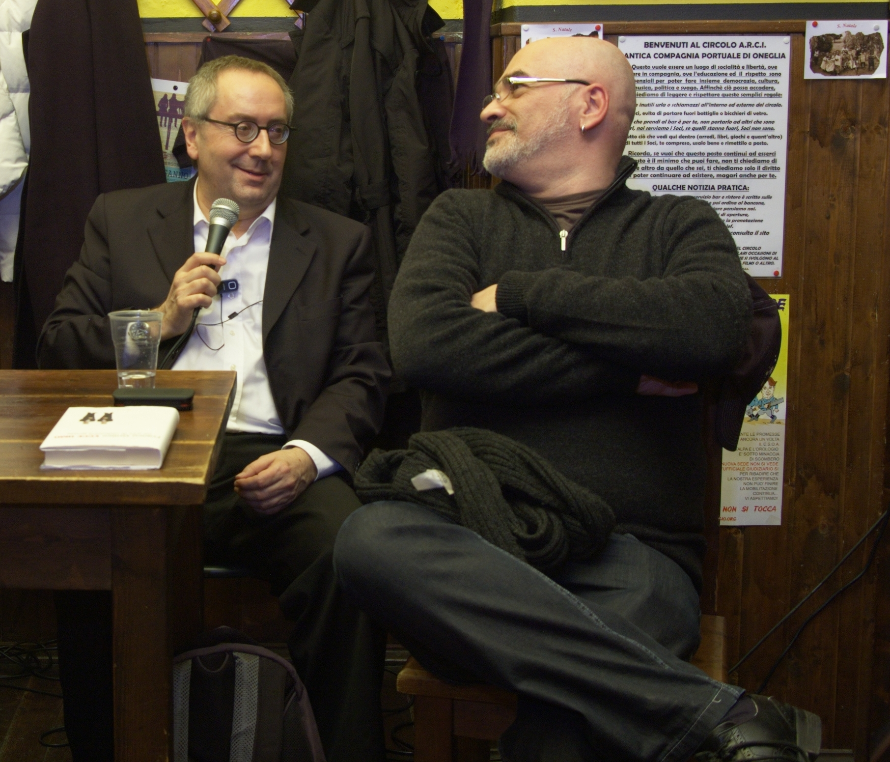 Franco Grillini, honorary president of Arcigay (left) and Aurelio Mancuso, former president of Arcigay (right) during a meeting in Imperia, Italy, February 19, 2009